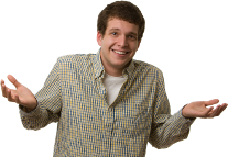 Rob Grindes bust shrugging. - banner image